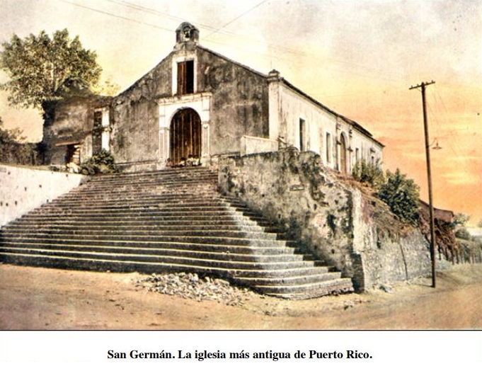 Book: Crónica de la Guerra Hispanoamericana en Puerto Rico, p. 293 Author: Ángel Rivero, Capitán de Artillería